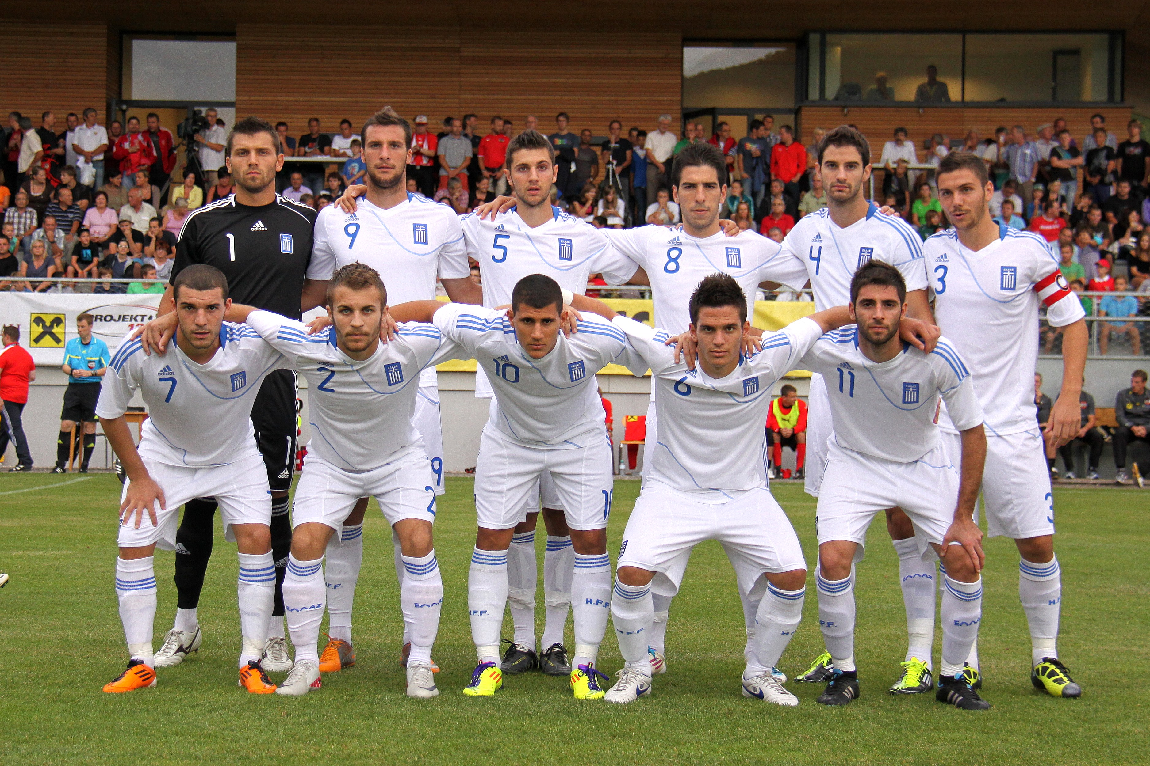 Greece U-21 before the friendly-match against Austria U-21 (2:3), 2011-09-05 in Gloggnitz – The photo shows (from left to right) 1st row: Nikos Kaltsas (Veroia FC), Alexis Apostolopoulos (Paok FC), Nikos Karelis (Ergotelis FC), Kostas Triantafyllou (Panserrakios FC), Christos Chrysofakis (Ergotelis FC); 2nd row: Goiuri Londigin (Skoda Xanthi FC), Apostolos Vellios (Everton FC), Dimitris Stamou (Paok FC), Pavlos Mitropoulos (Olympiakos Volou FC), Tassos Avlonitis (Kavala FC), Tassos Laos (Panathinaikos FC).